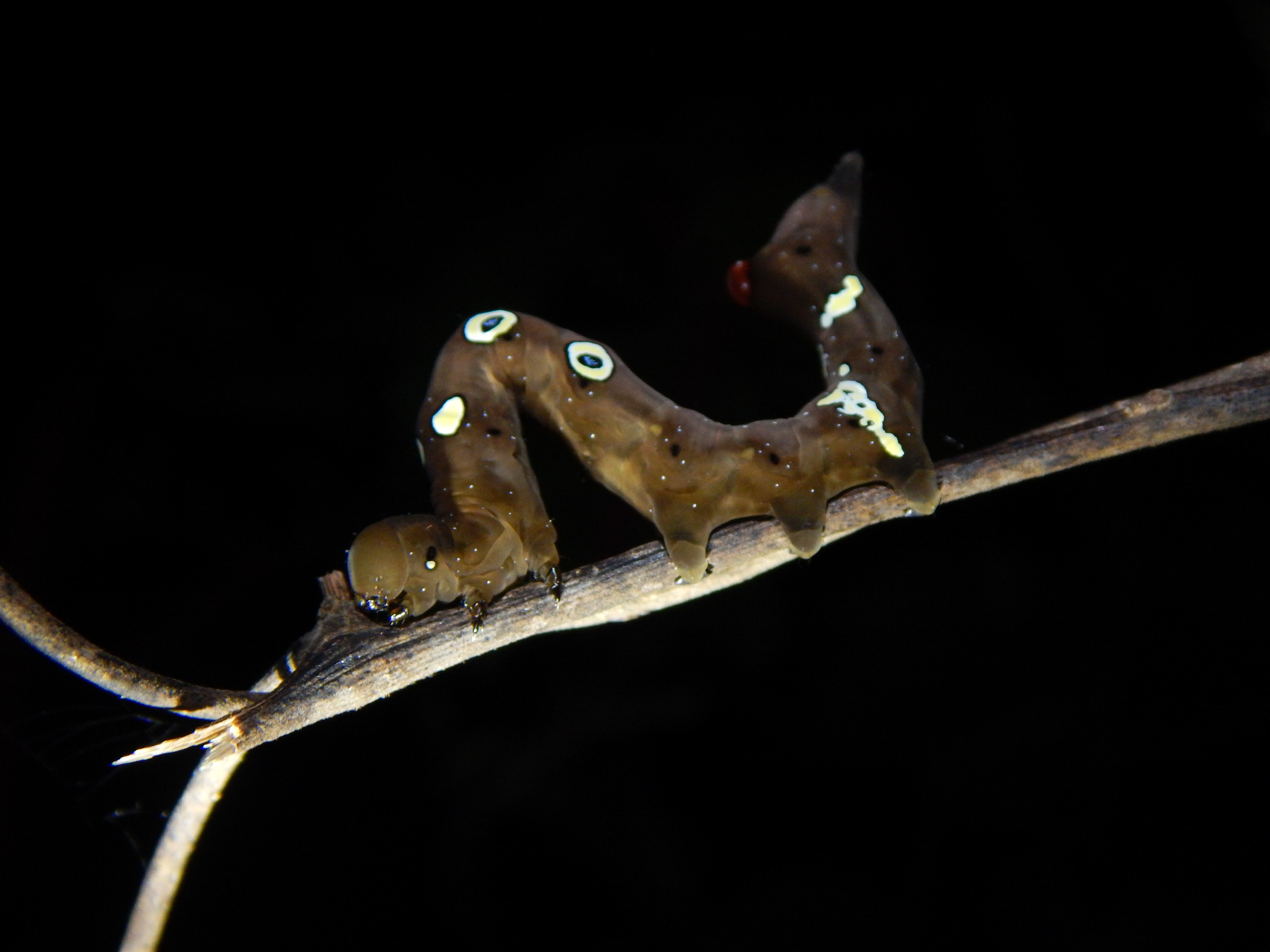 Fruit piercing moth caterpillar seen in Indraprastha farm, Mysore